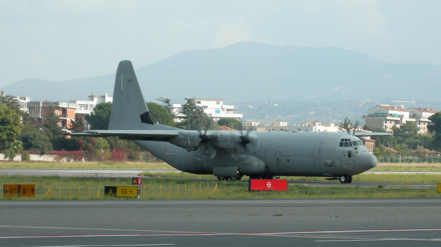 a Lockheed C-130J Hercules of the 46ª Brigata of the Italian Air Force on ranway of the Ciampino Airport